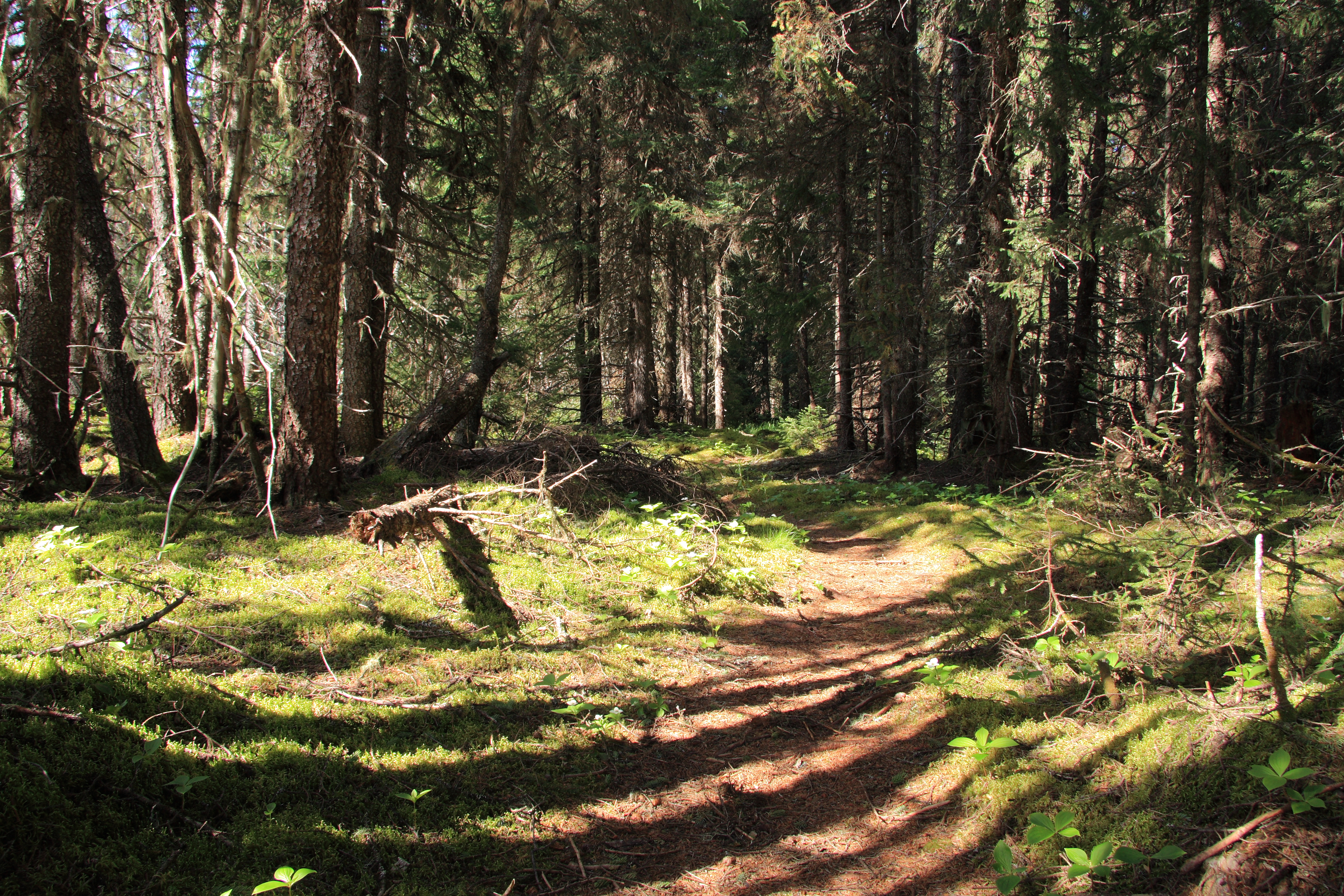 Black Spruce understory, Grands-Jardins National Park, Quebec, Canada.